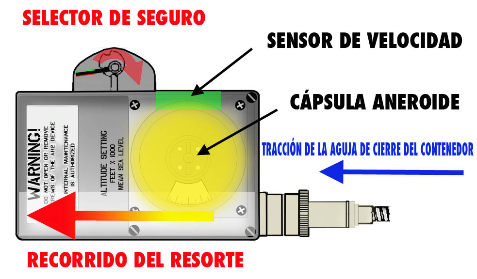 Automatic Activation Device, Barometric and speed sensor activated